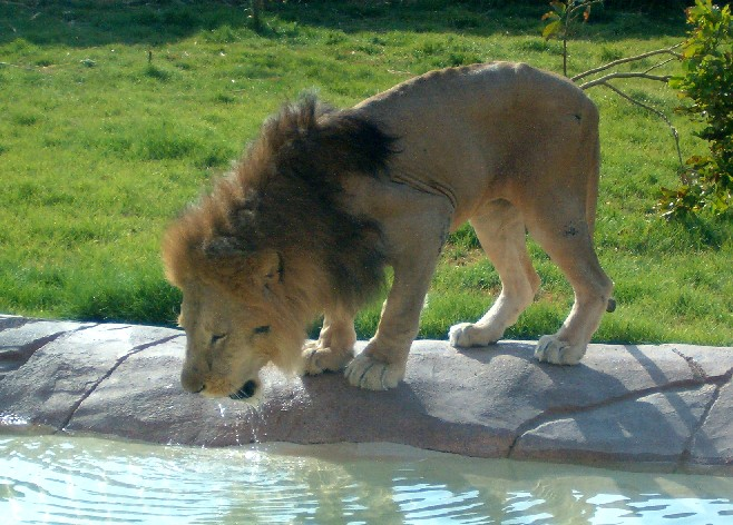 Lion drinking. Clicked at Al Ain zoo in the United Arab Emirates.